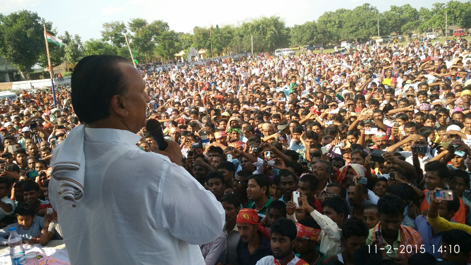 AddressingRally